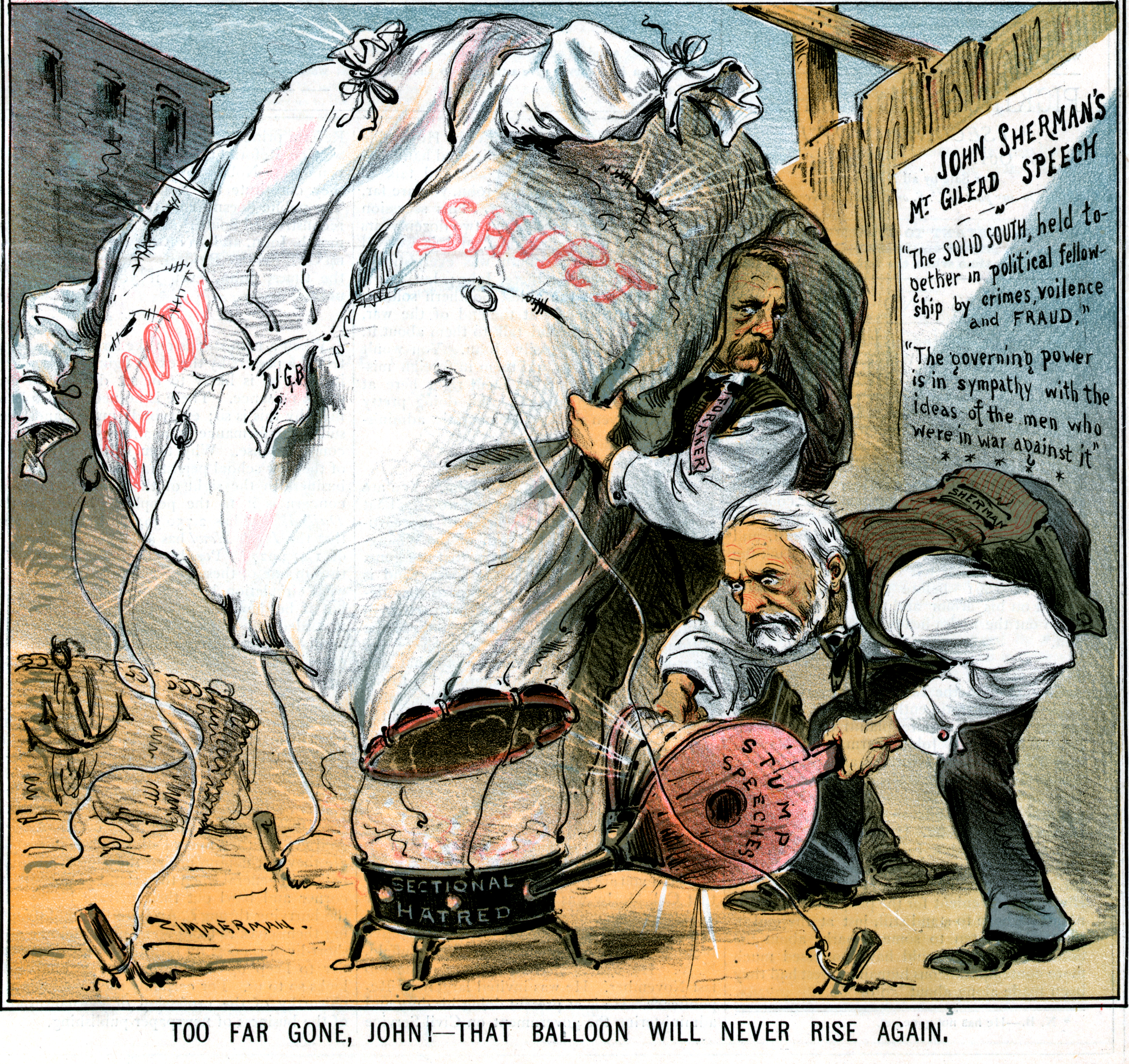 Cartoon depicting John Sherman and Joseph Foraker.